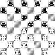 Tabia for "Gambit Kharyanova-Shoshina"